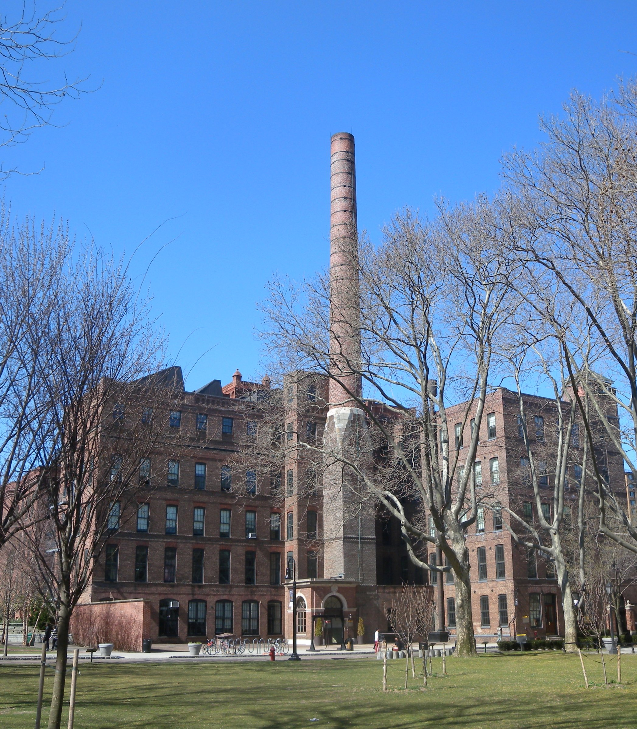 Looking northwest at Pratt's chimney on a sunny late morning.